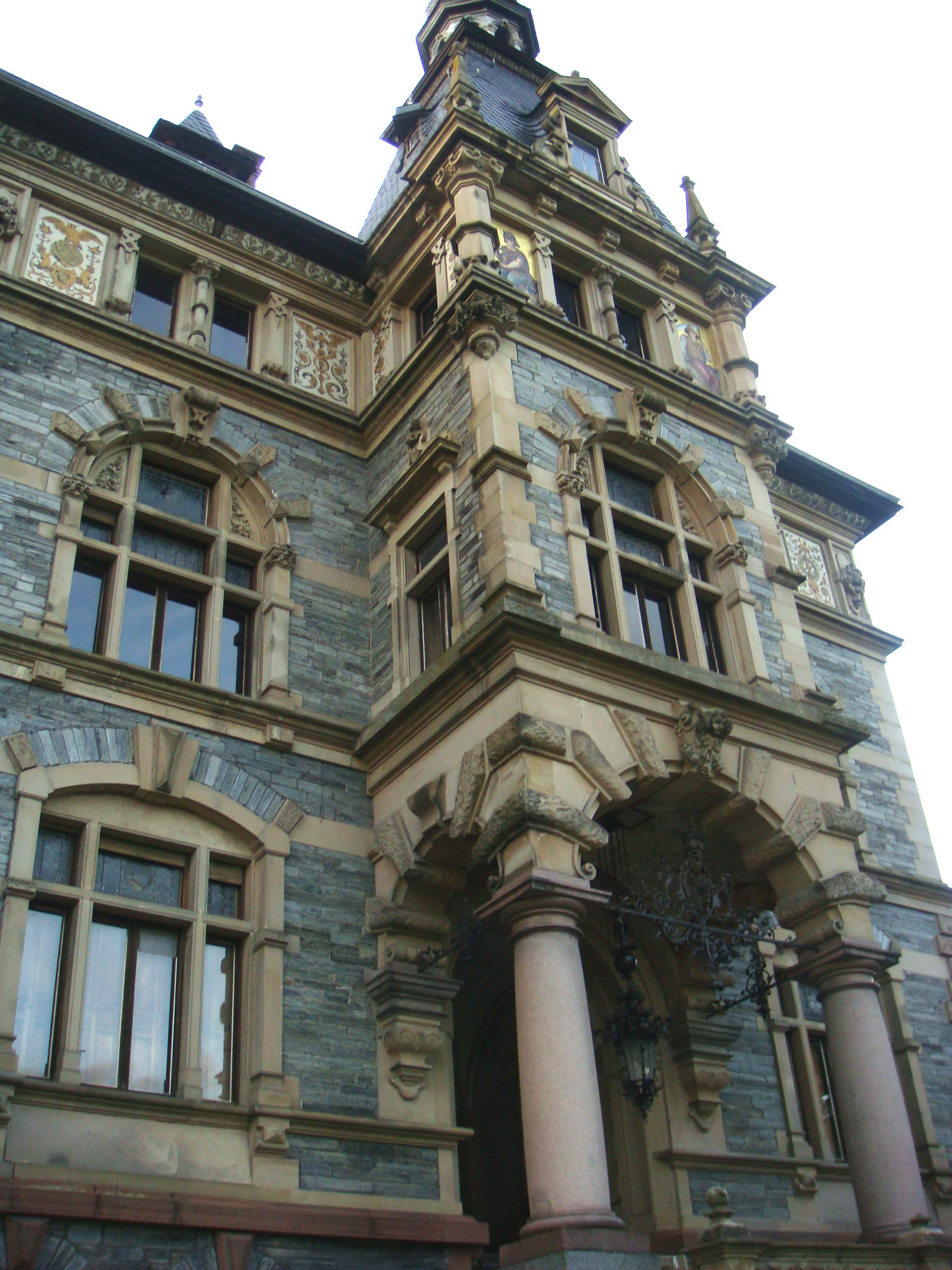 Schloss Lieser Main Entrance